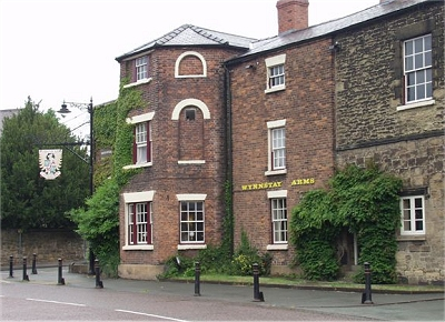 The Wynnstay Arms Hotel at the junction of Park Street and High Street, Ruabon. Original photograph taken by John Haynes, June 2006